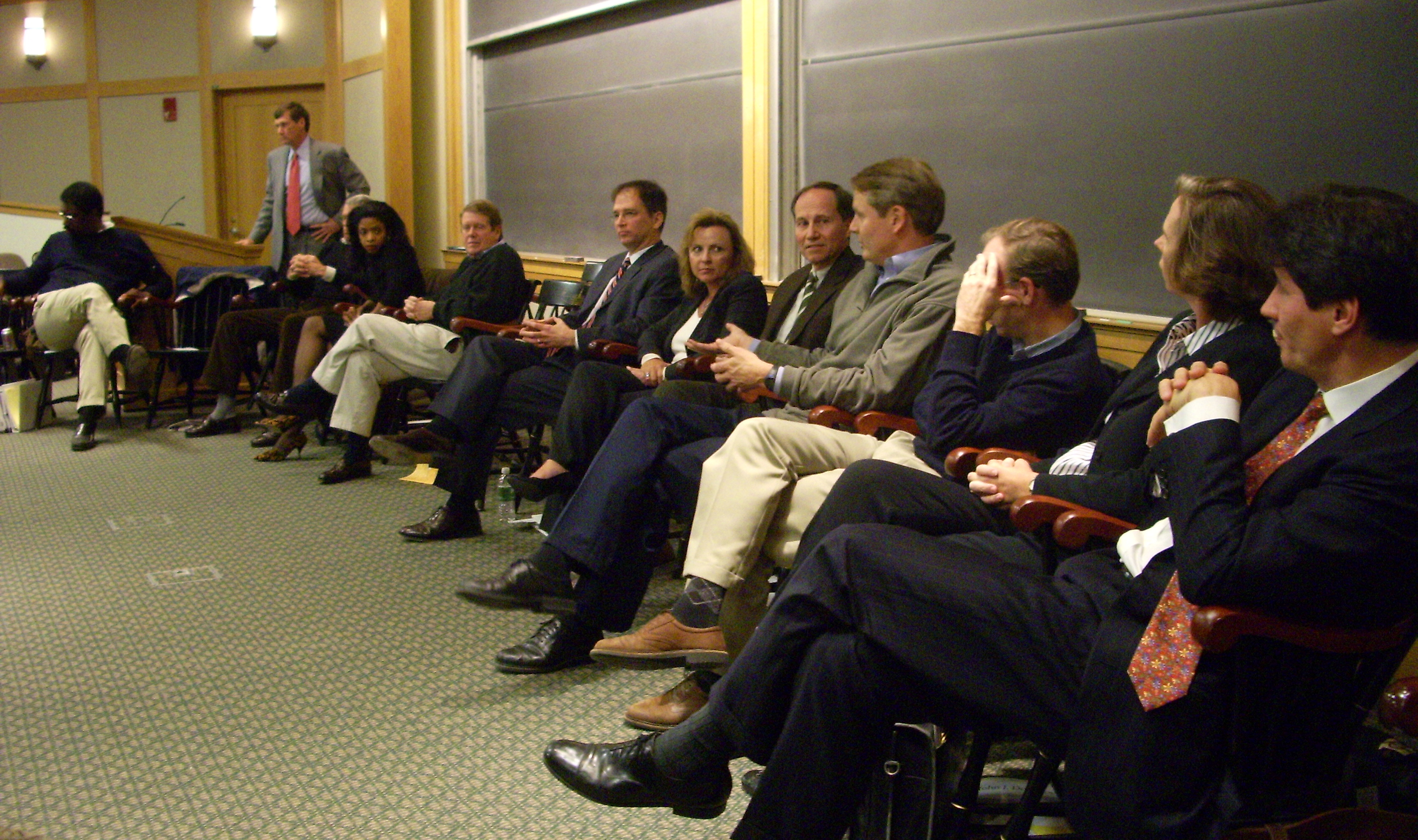 Photograph of 12 sitting members of the Board of Trustees of Dartmouth College in Hanover, New Hampshire. Left to right: Stephen Smith, Charles Haldeman, R. Bradford Evans (mostly obscured), Pamela Joyner, Russell Carson, Todd Zywicki, Karen Francis, Al Mulley, John Donahoe, Stephen Mandel, Jr., Christine Bucklin, and José Fernandez. Absent members sitting at the time of the photo: Michael Chu, Peter Robinson, T. J. Rodgers, Leon D. Black, and the two ex officio trustees, College president James Wright and Governor of New Hampshire John Lynch.